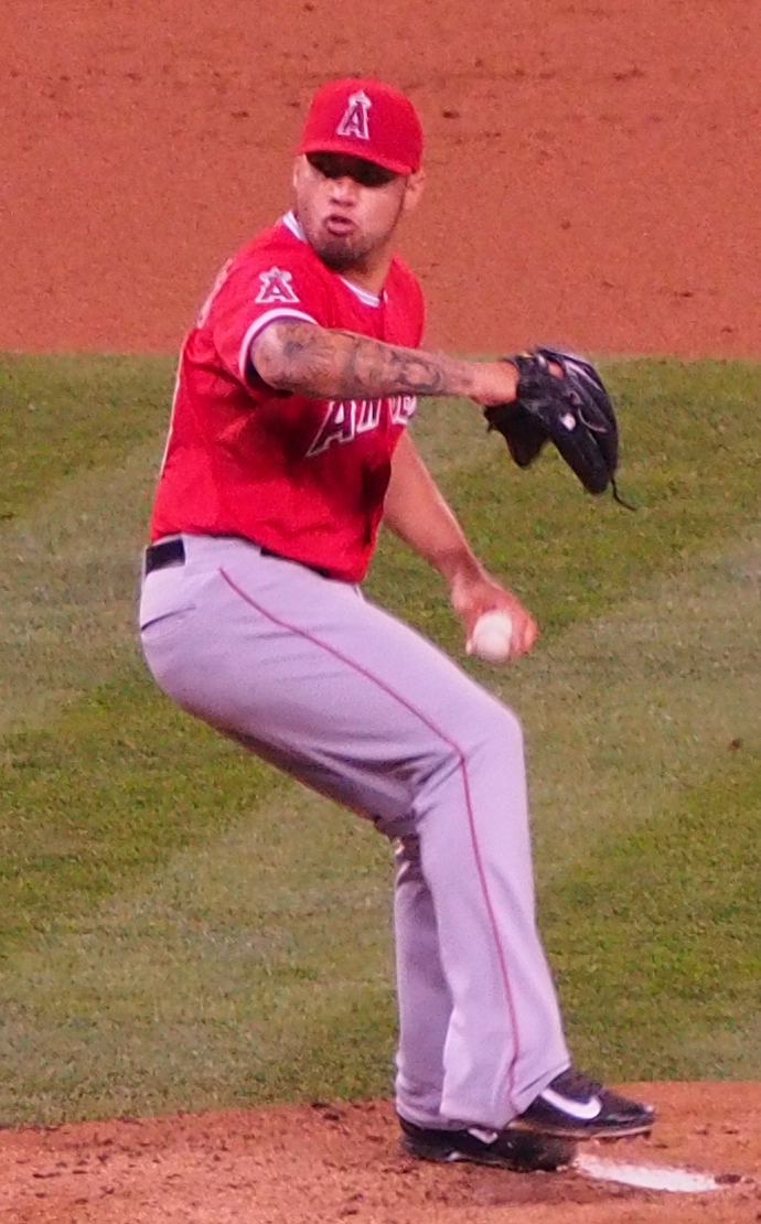 Hector Santiago